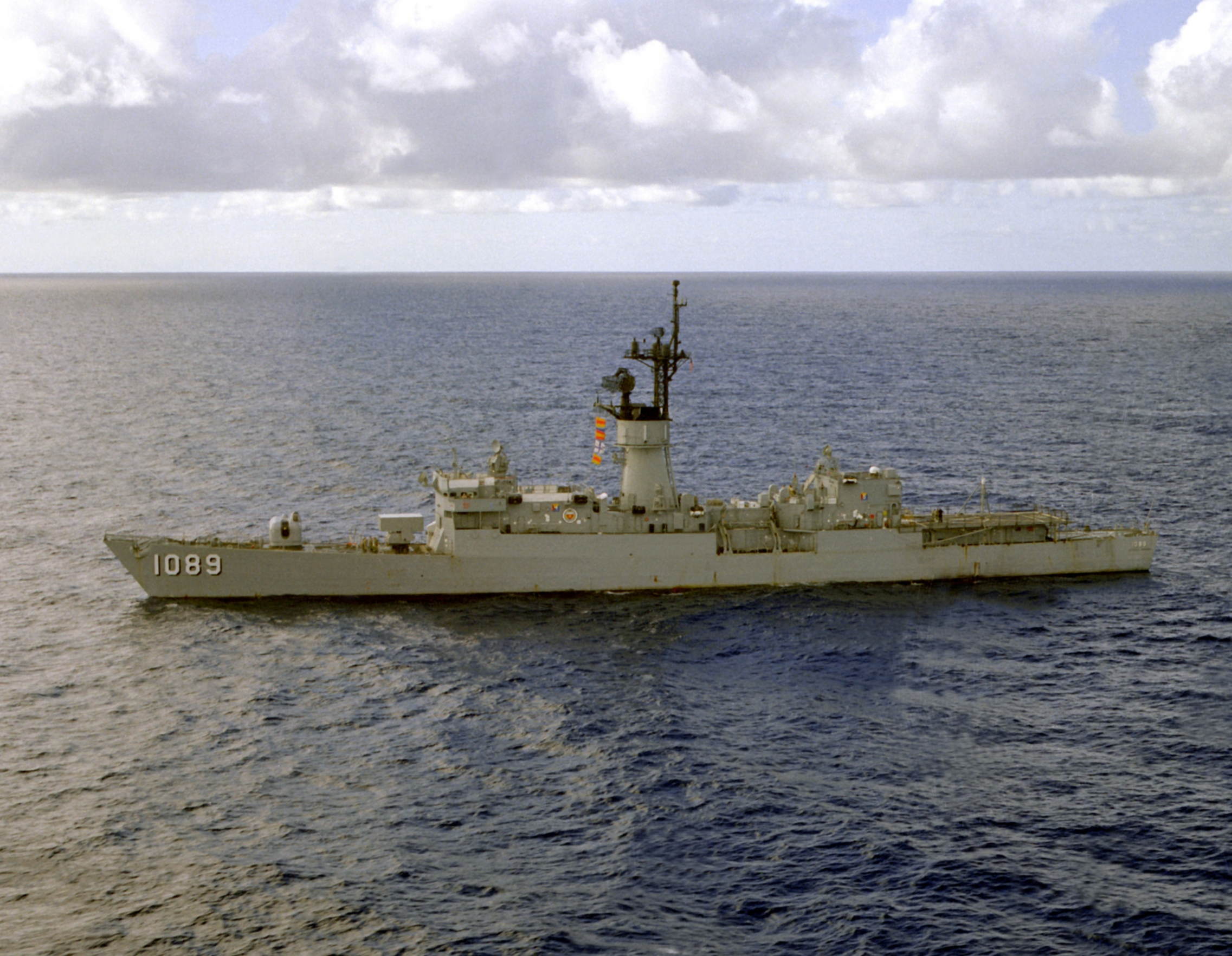 The U.S. Navy Knox-class frigate USS Jesse L. Brown (FF-1089) off Guantanamo Bay, Cuba, in 1979.